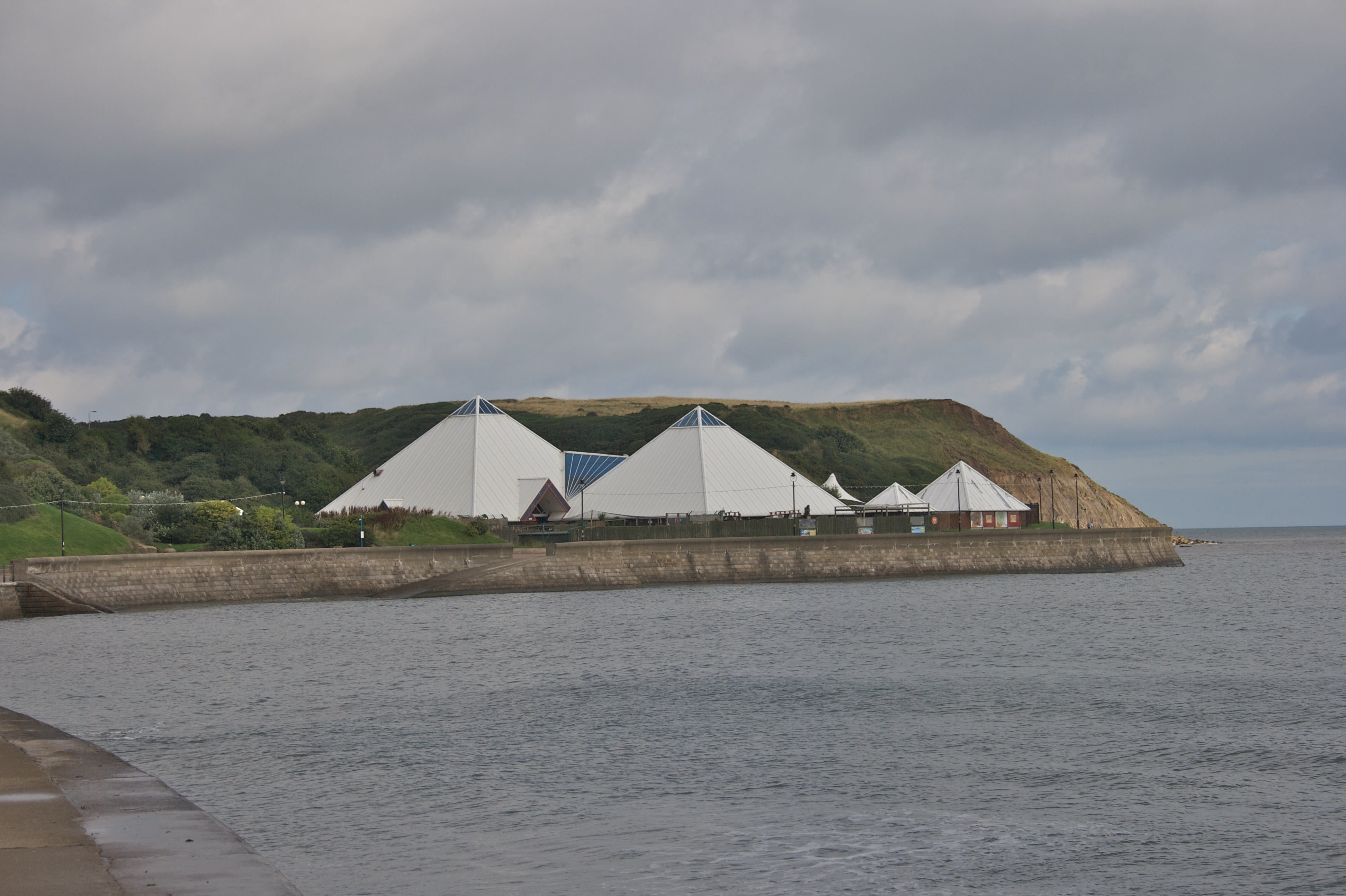 Scarborough Sealife Centre